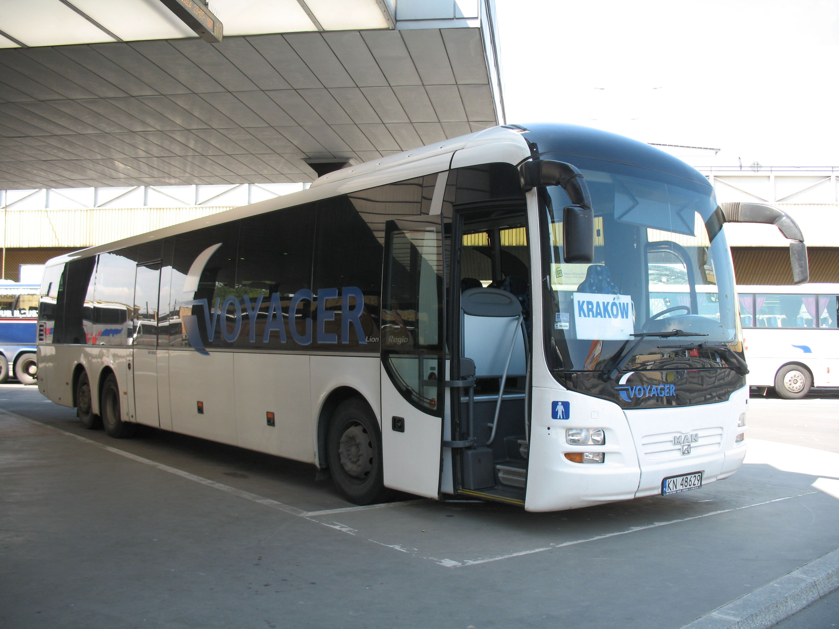 MAN Lion's Regio L bus (reg. KN 48629) in Kraków, Poland. Voyager Łużna operator.